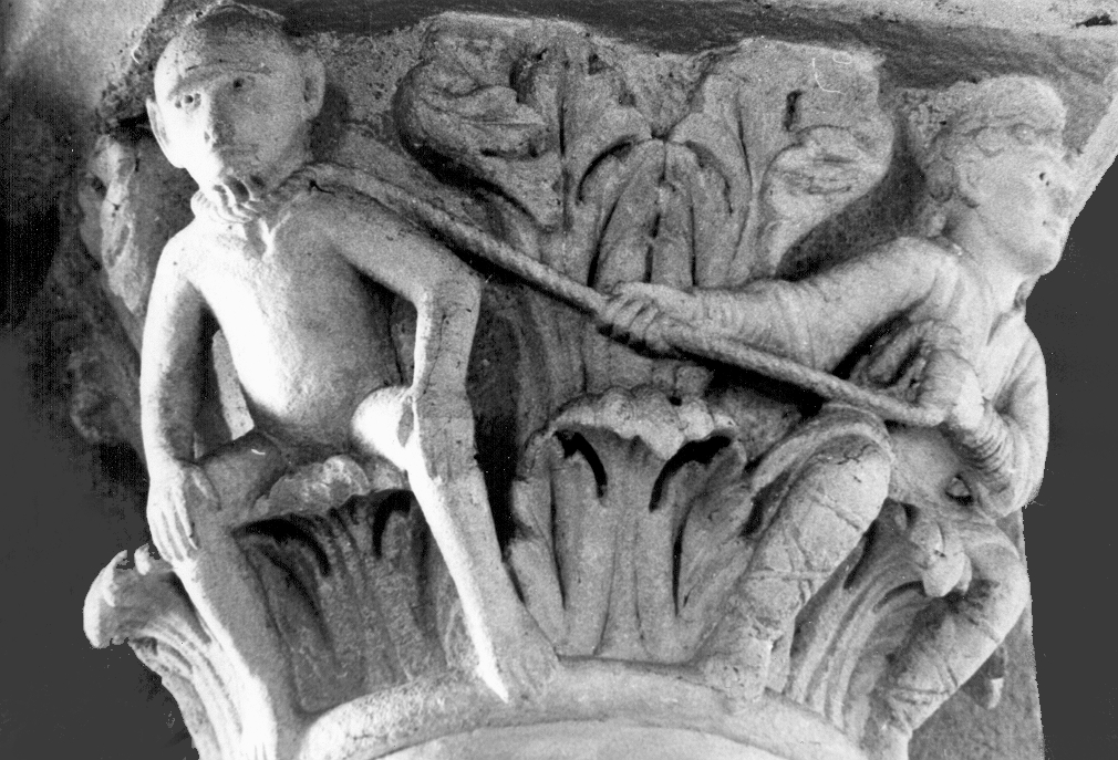 Capital of Mozac Abbey : a monkey roped by a man.